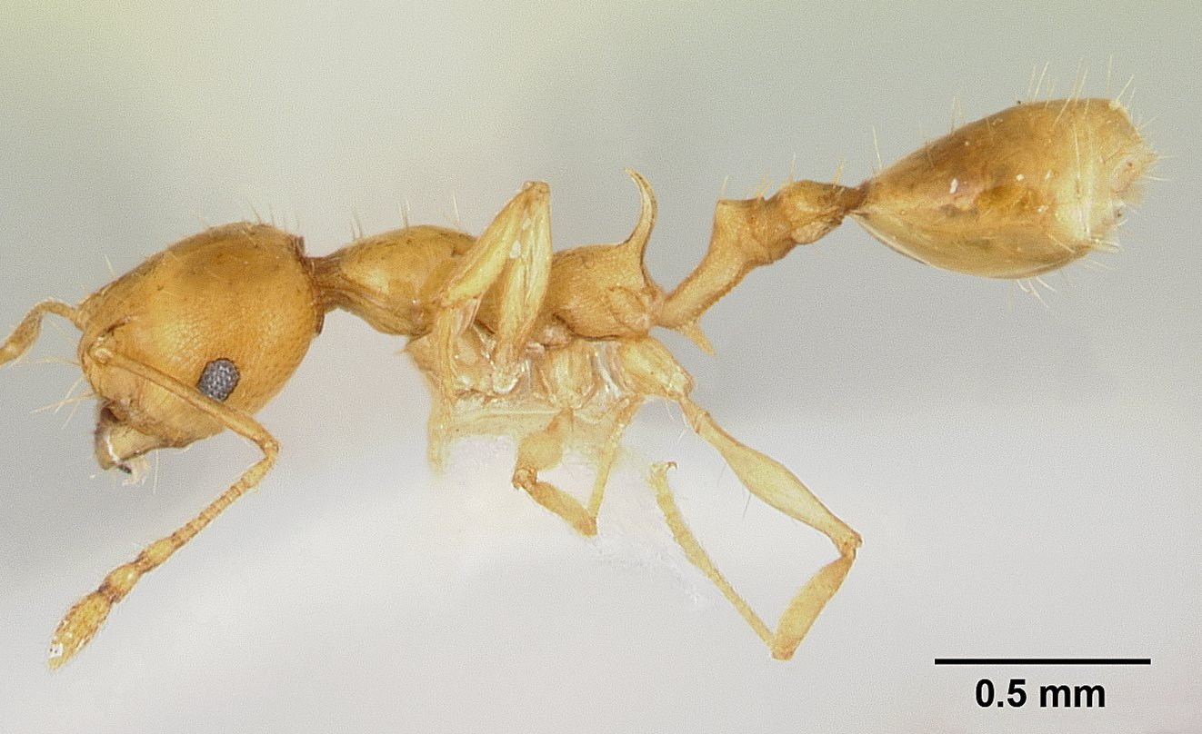 Profile view of ant Recurvidris browni specimen casent0178521.